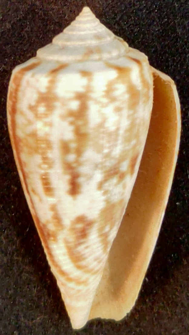 Conus Anemone Front